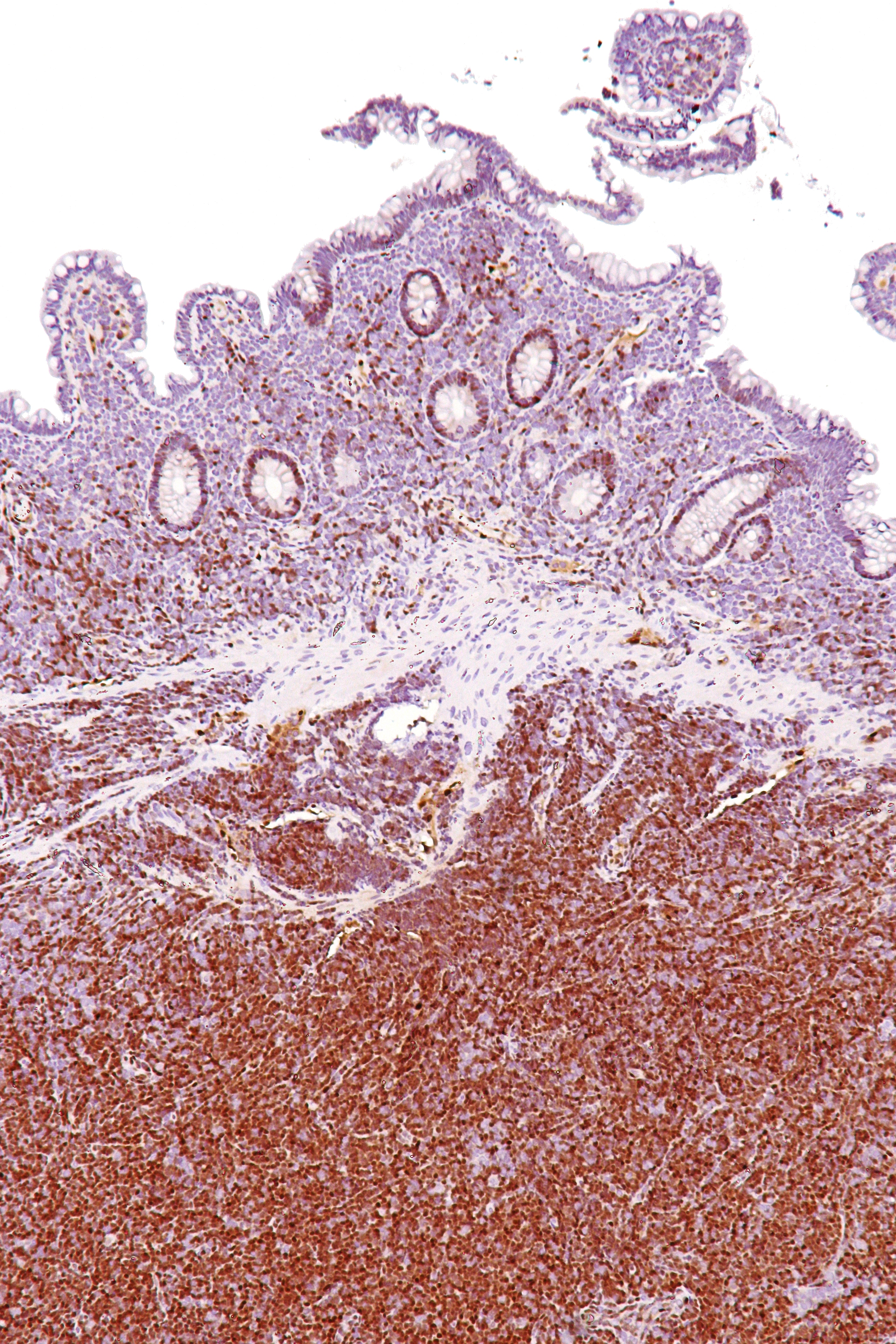 Intermediate magnification micrograph of mantle cell lymphoma of the terminal ileum. Endoscopic biopsy. Cyclin D1 immunostain. Histomorphologic features: Monomorphic small lymphoid cells less than twice the size of a resting lymphocyte. Abundant mitoses. Sclerosed blood vessels. Scattered epithelioid histiocytes. Immunohistochemical staining: Positive: Cyclin D1, CD5, CD43, CD20, CD45. Negative: CD23. Molecular features: t(11;14)(q13;q32). CCND1/IGHG1 fusion gene.[1] Related images Low mag. Intermed. mag. Low mag. - cyclin D1. Intermed. mag. - cyclin D1. References ↑ URL: Accessed on: 18 August 2010.